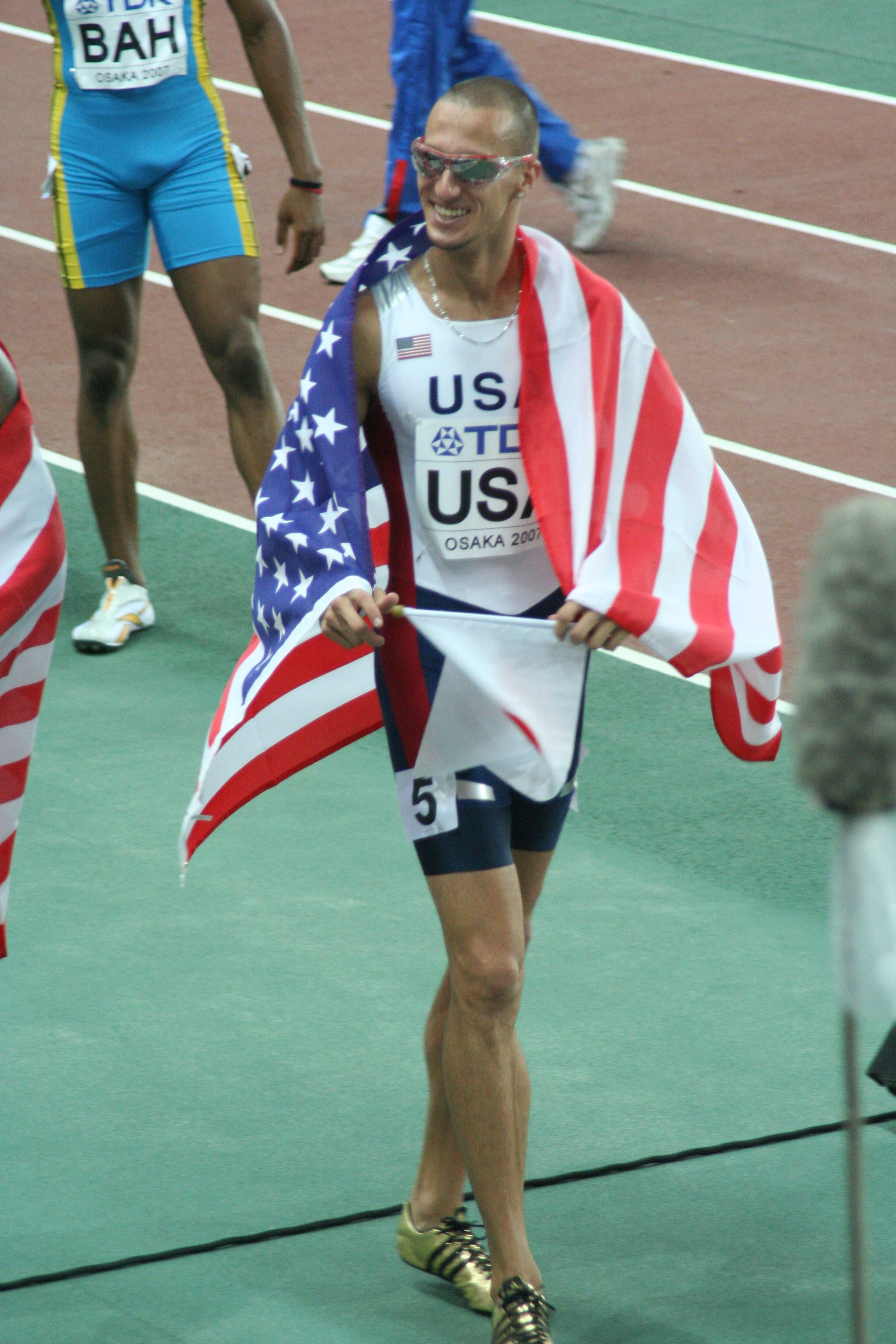 World Athletics Championships 2007 in Osaka - Jeremy Wariner after winning gold with the US 4*400 metres relay team